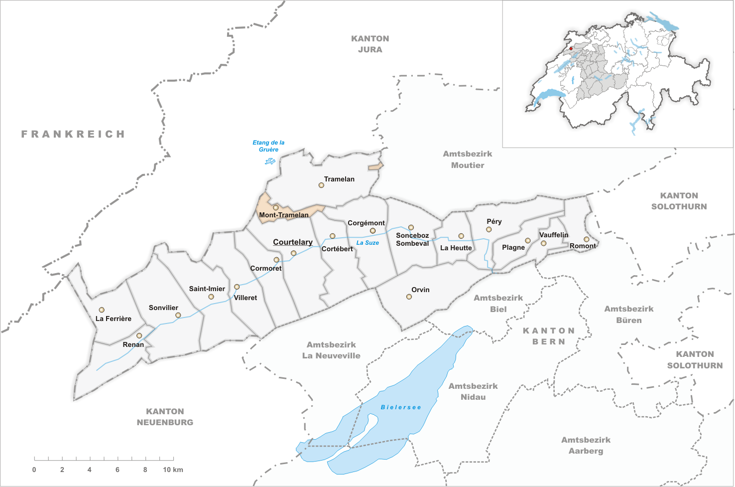 Municipality Mont-Tramelan